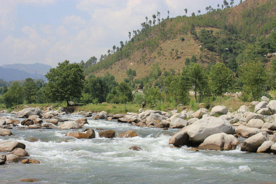 picture